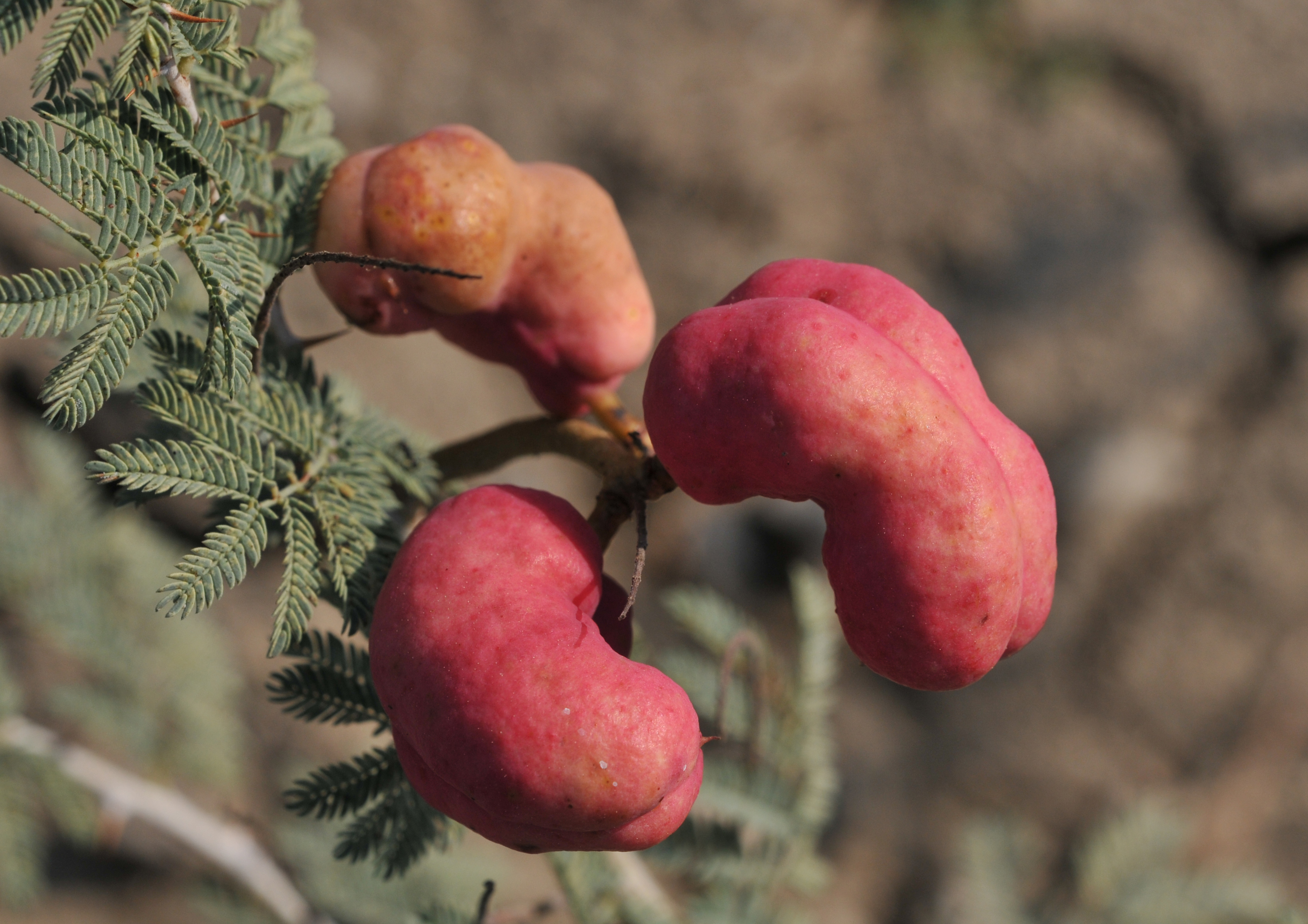 Seed pods of Syrian mesquite (Prosopis farcta). Karatepe, Osmaniye - TR